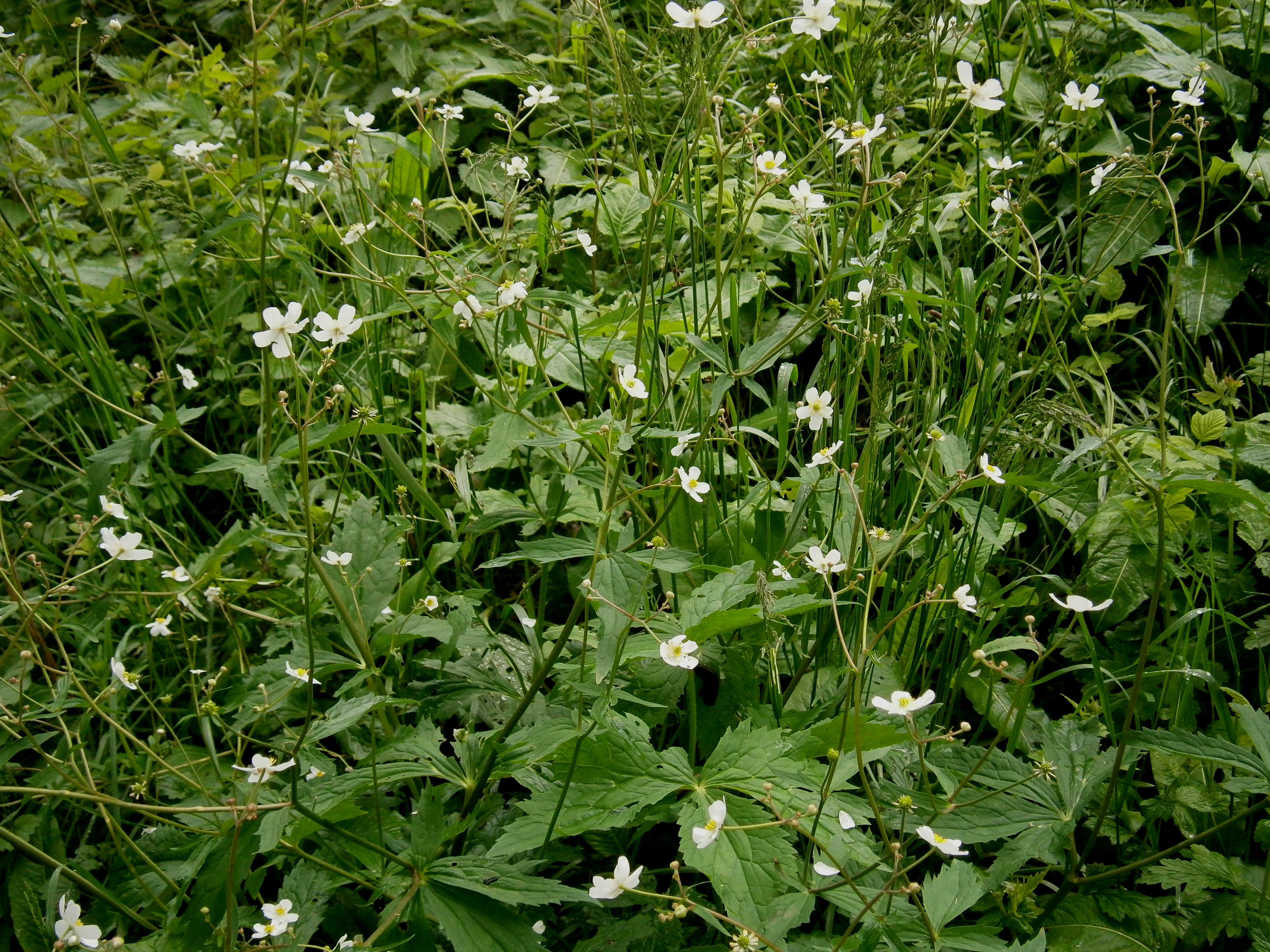 Ranunculus aconitifolius